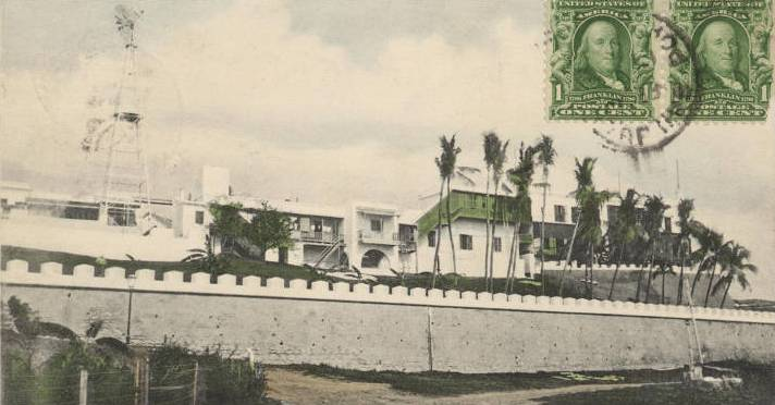 Post Card of Casa Blanca. Old San Juan, 1904